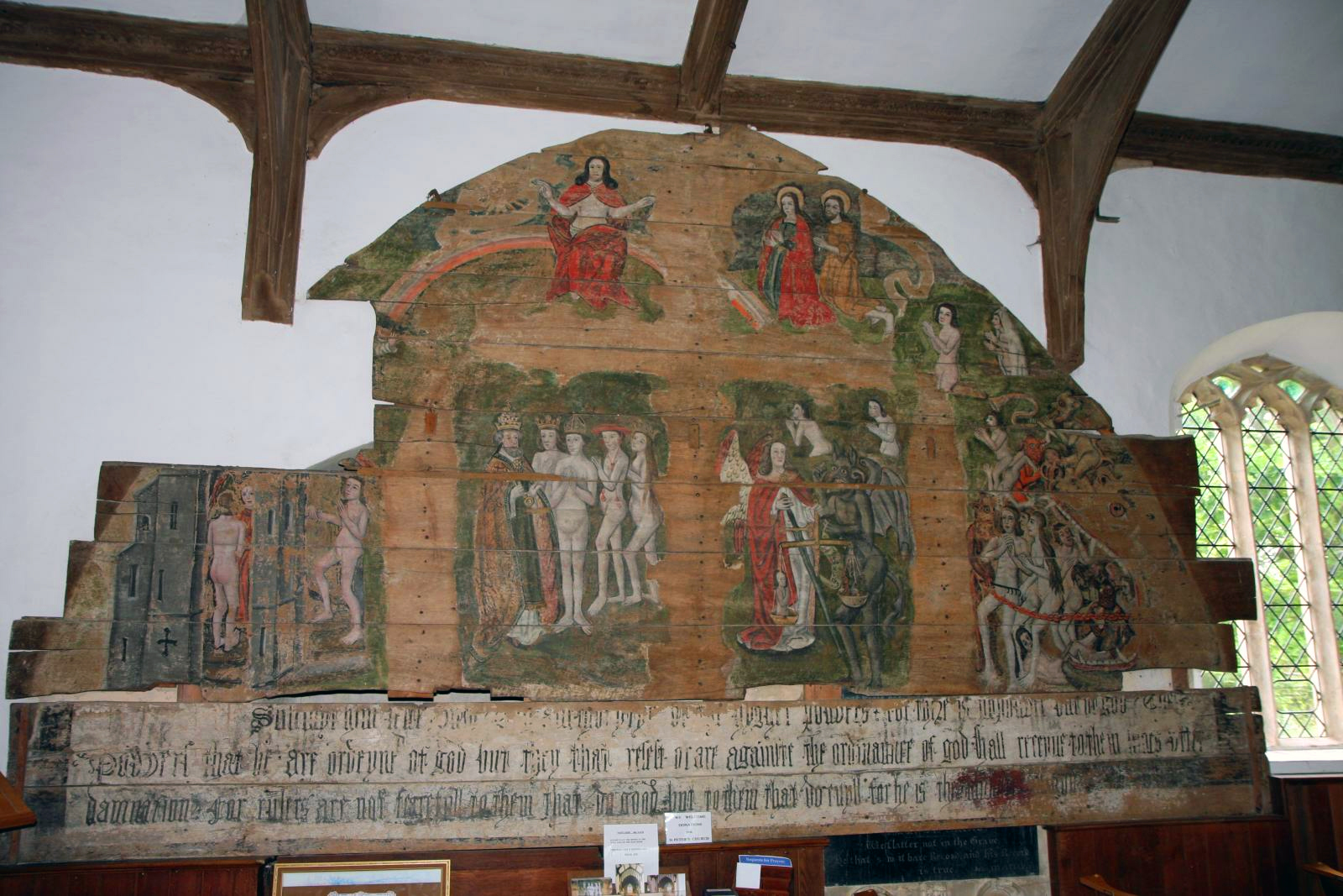 Last Judgement painting in Wenhaston Church, painted in 1480s